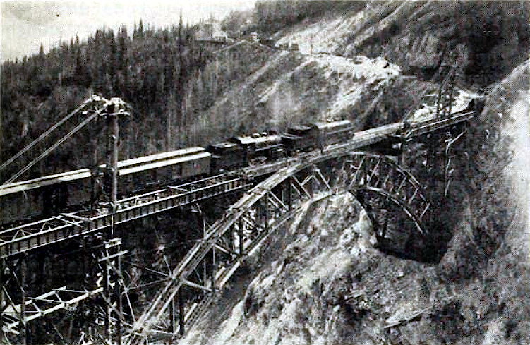 Reinforcement of the Stoney Creek Arch Bridge (view of cantilever falsework), Selkirk Mountains, British Columbia, 1929